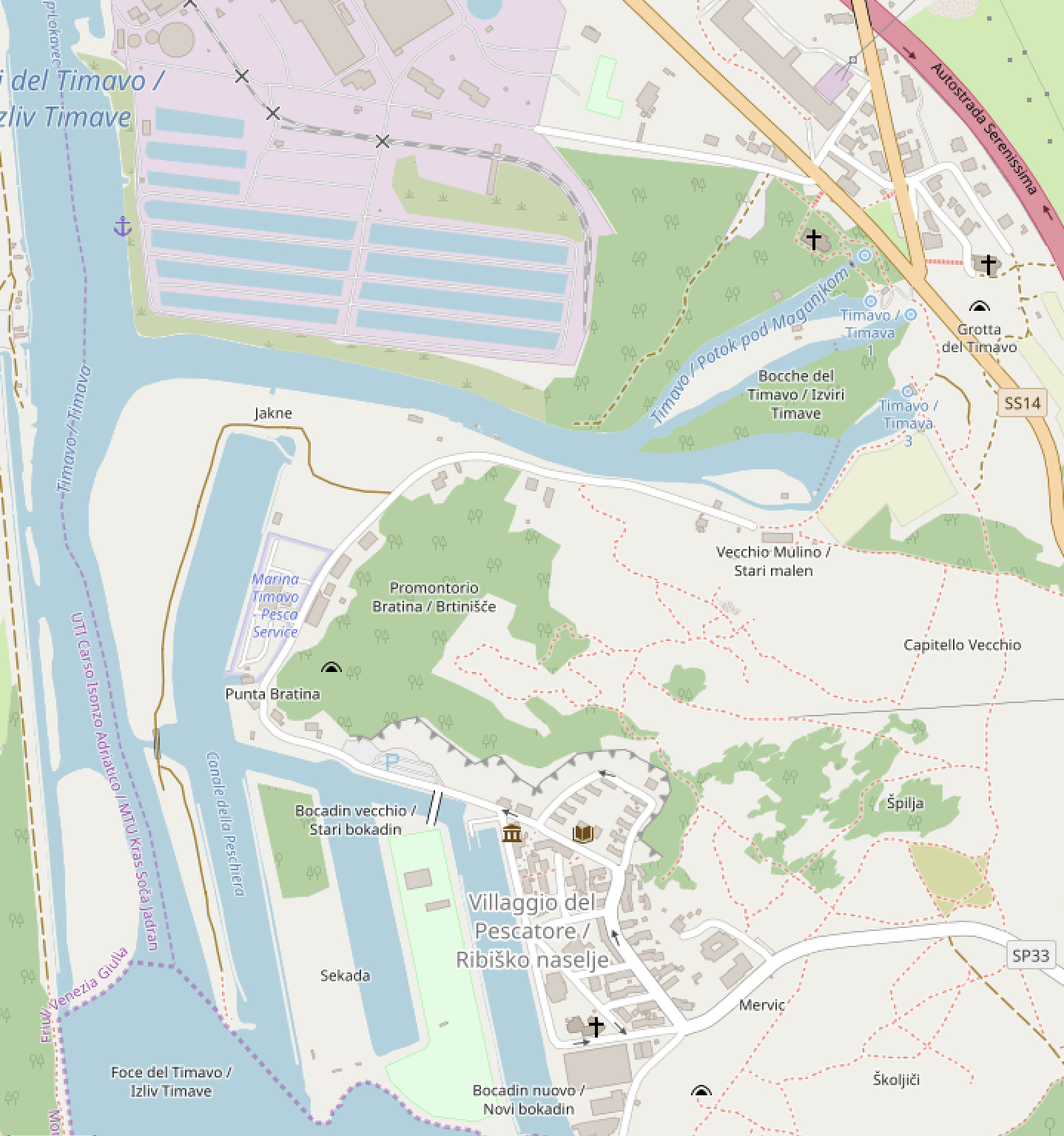 Promontario Bratina, near Monfalcone, Italy. Site of ‘Quota 28’ (Hill 28) in the Tenth Battle of the Isonzo (1917). Contains information from , which is made available here under the Open Database License (ODbL).